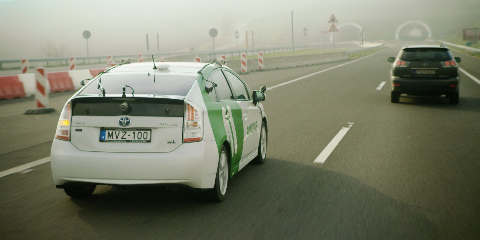 AImotive prototype Toyota Prius driving on highway.